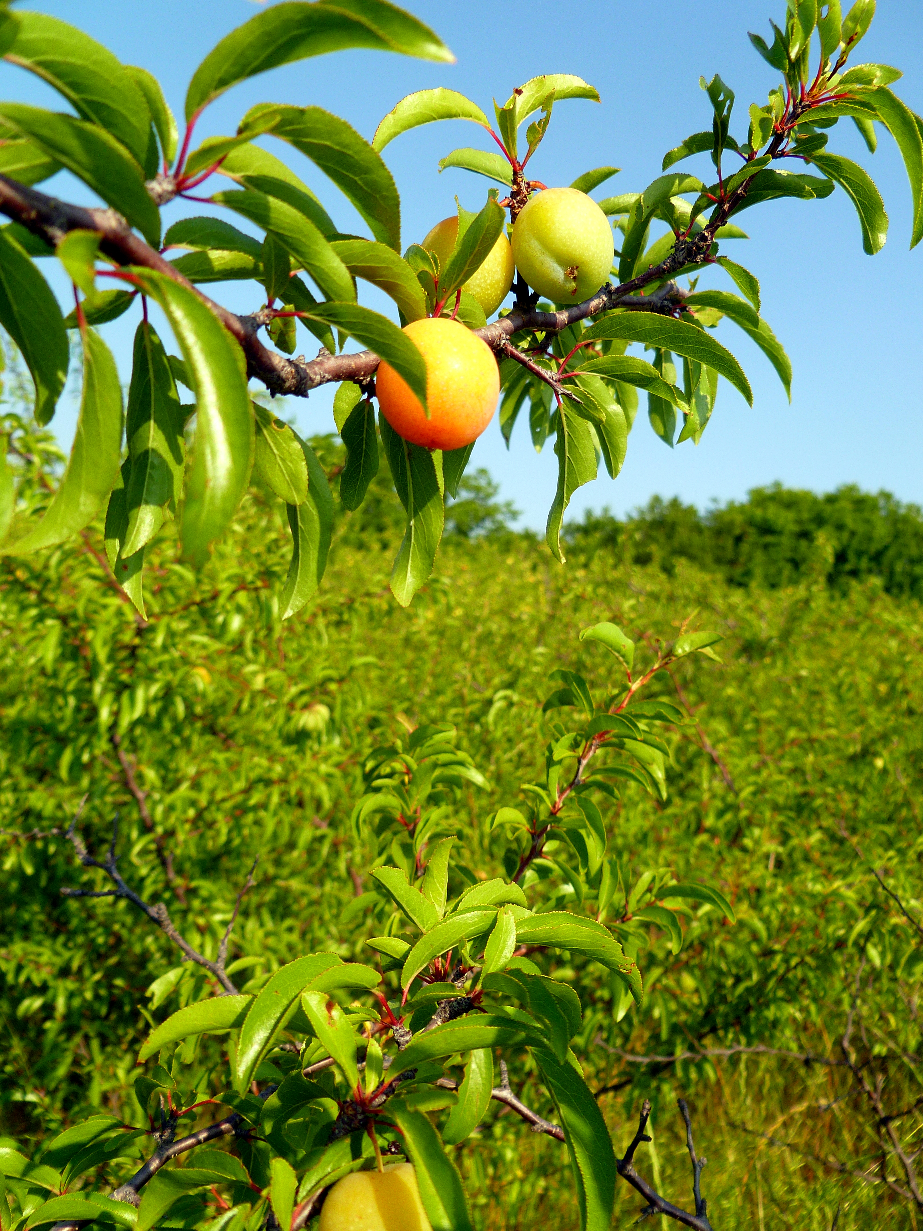 Ripening Chickasaw Plum, Cherokee plum, Florida sand plum, sandhill plum, or sand plum.